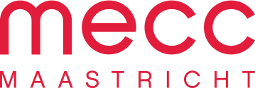 logo of MECC Maastricht